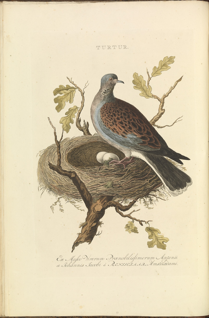 Plate 6 from the Nederlandsche vogelen by Nozeman and Sepp.